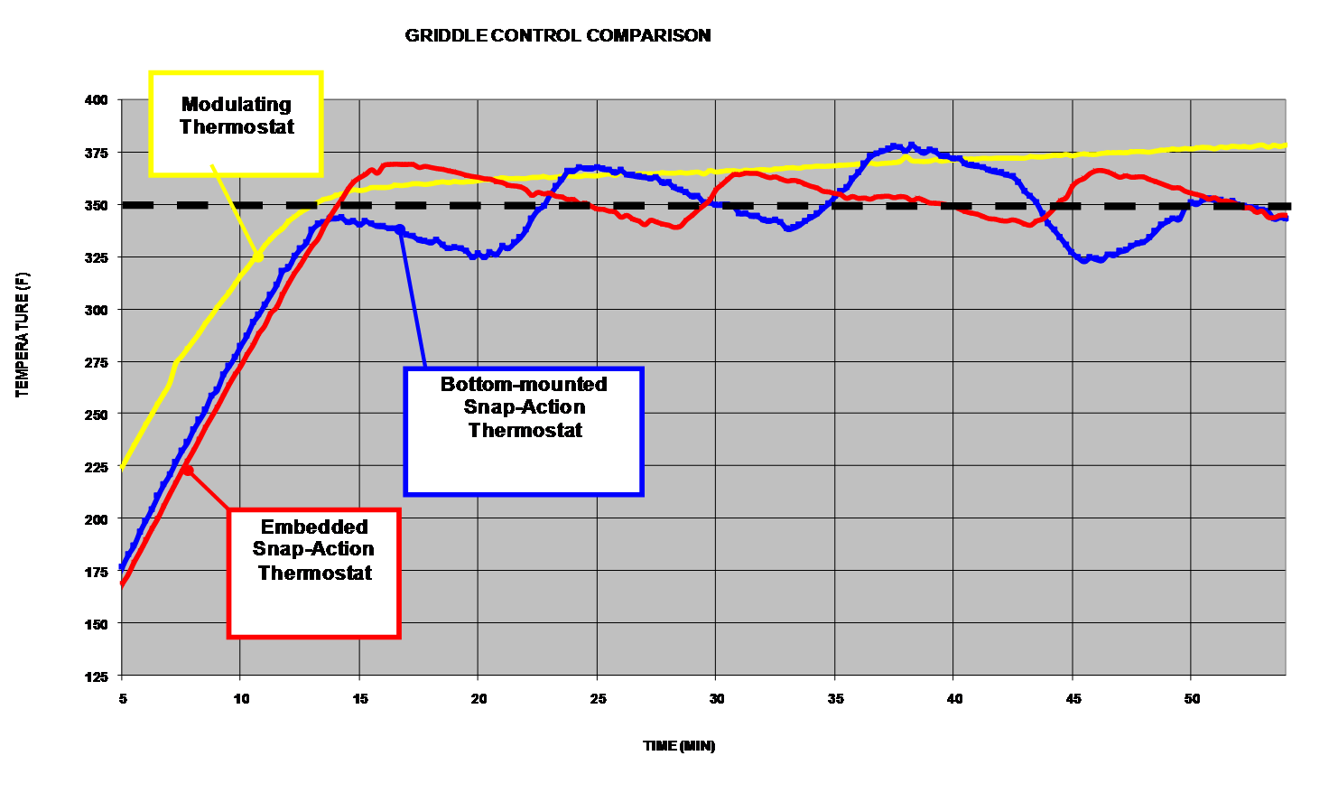 Lab data and chart of temperature response profiles for 1" thick griddle plate with a variety of control mechanisms.